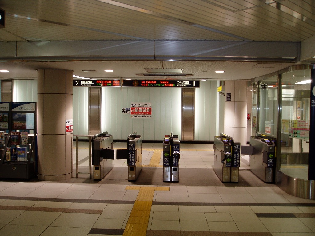 Tsukuba Express Line Ticket Gate, Shin-Okachimachi Station